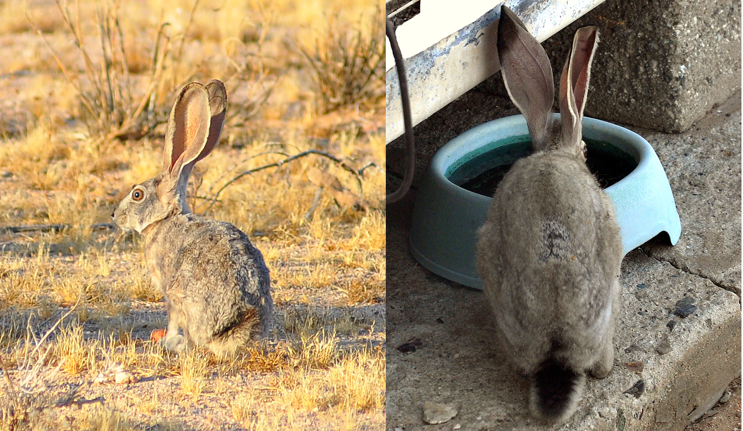 In the Mojave desert, a thirsty Black-tailed jackrabbit risks it all, and ventures onto a human's property to drink water from a dog's water bowl.